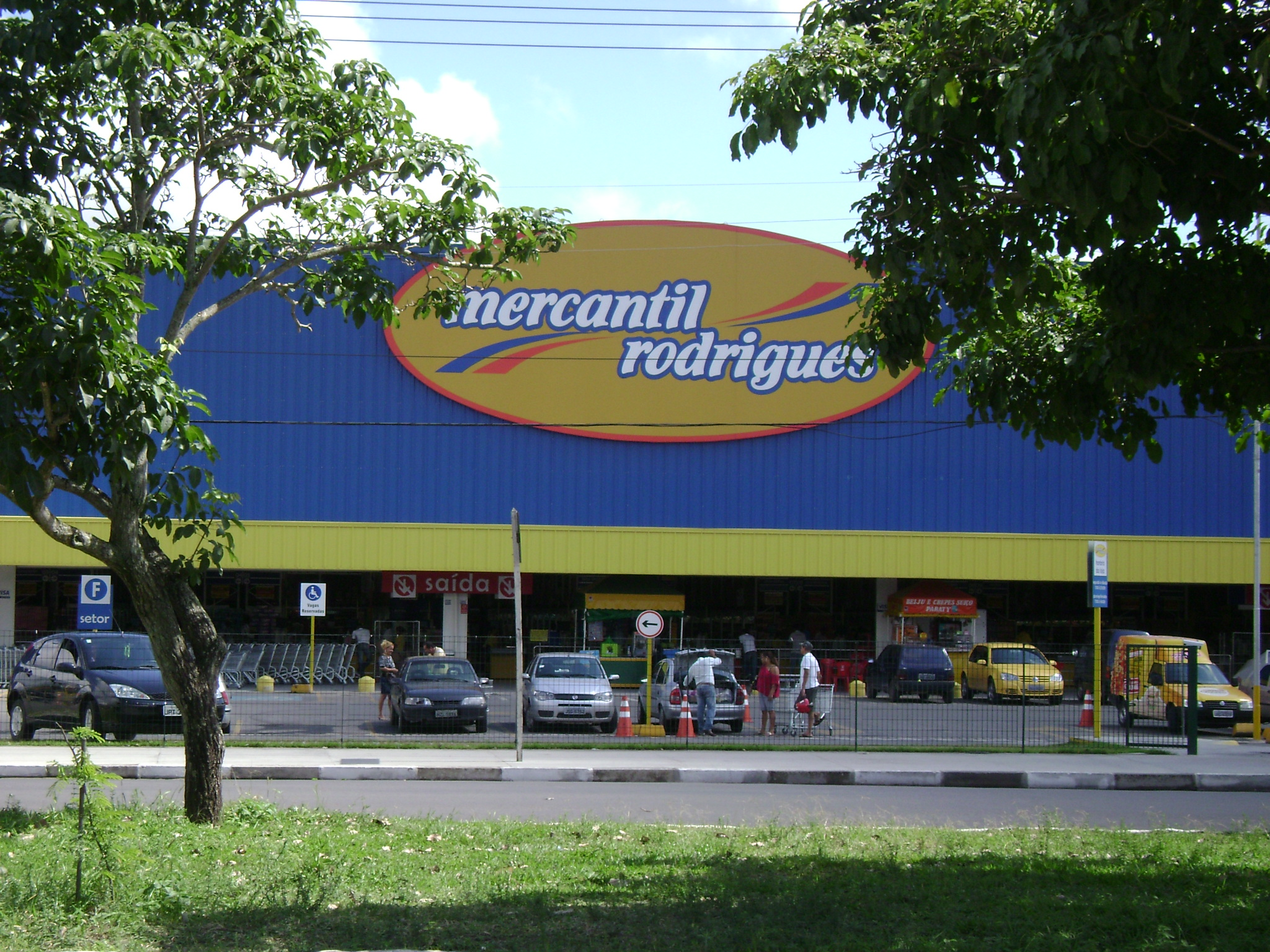 Fachada do Mercantil Rodrigues, na Avenida Maria Quitéria, em Feira de Santana, Bahia, Brasil.